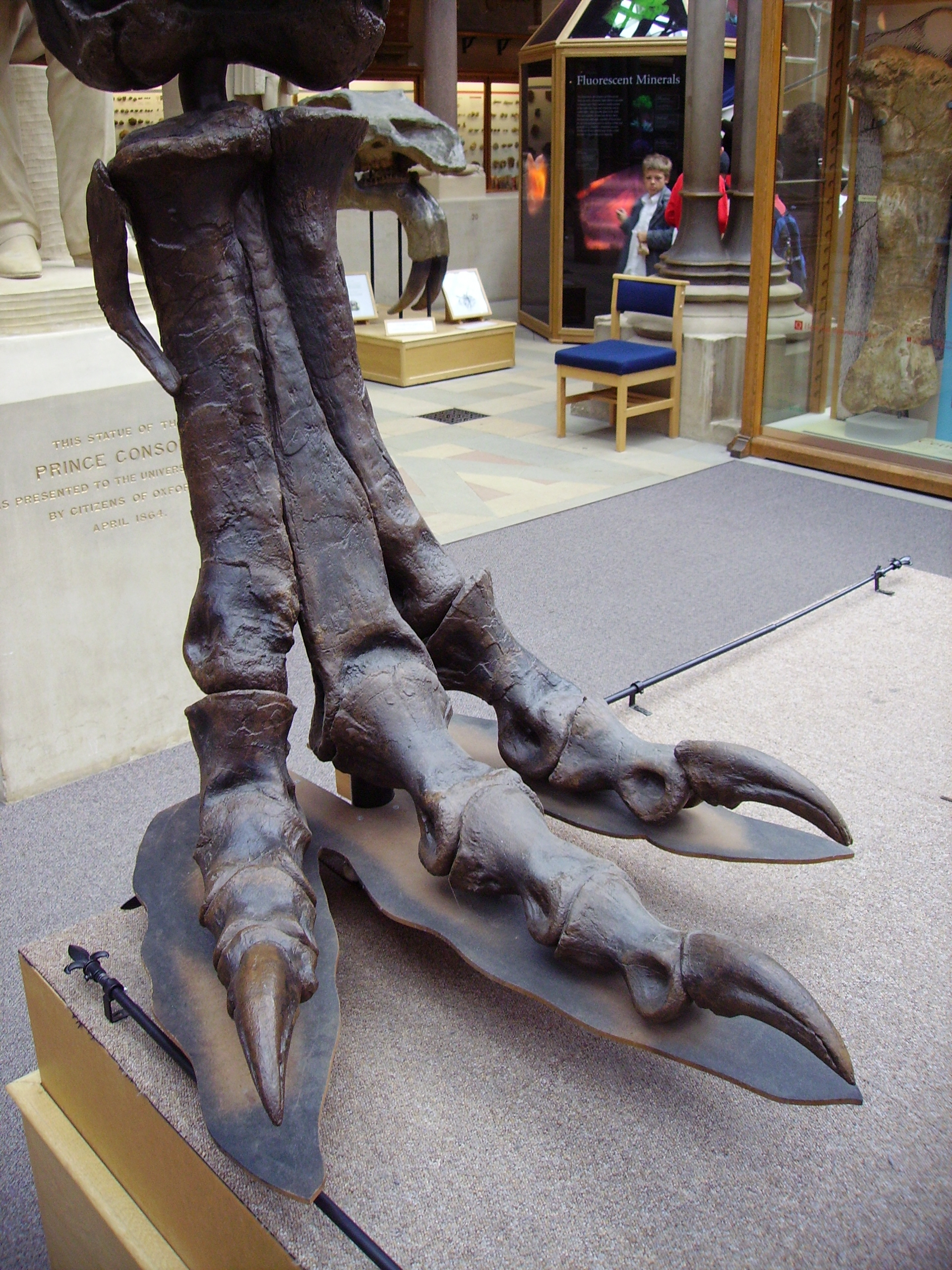 Photographer: User:Ballista